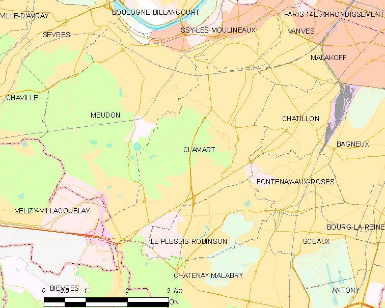 Map of French municipality Clamart